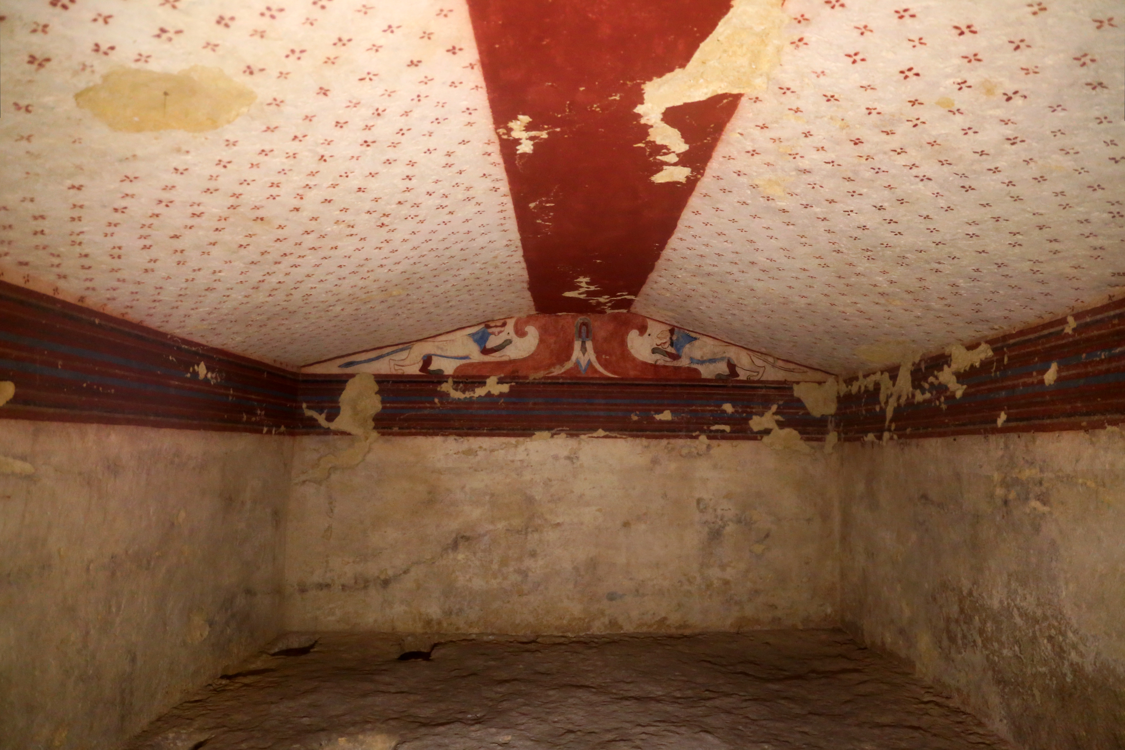 Necropoli dei Monterozzi (Tarquinia)